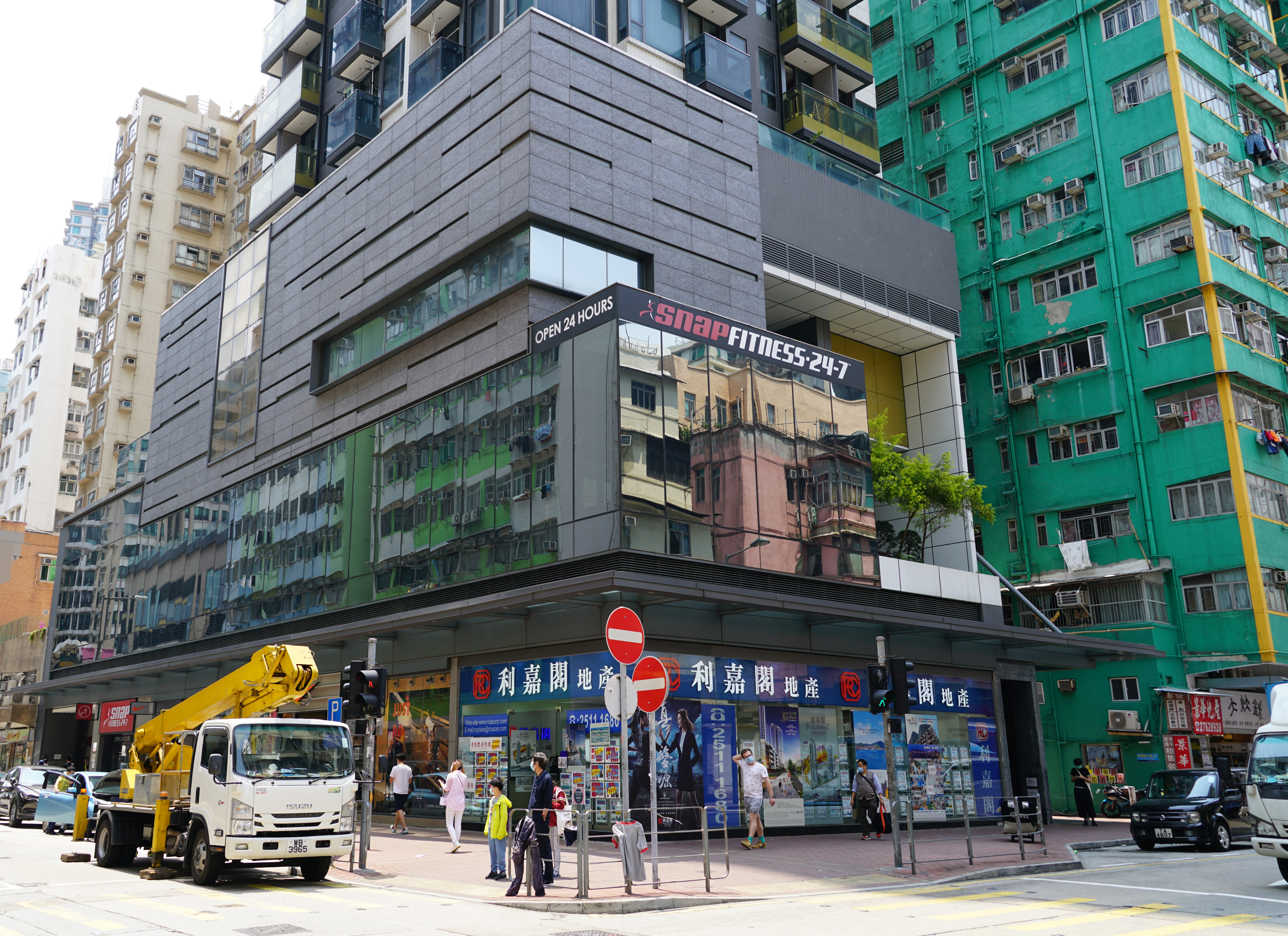 My Place, Hong Kong.